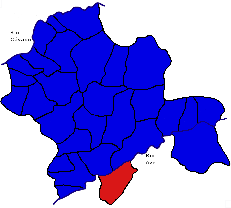 Map of Garfe in Povoa de Lanhoso, Portugal